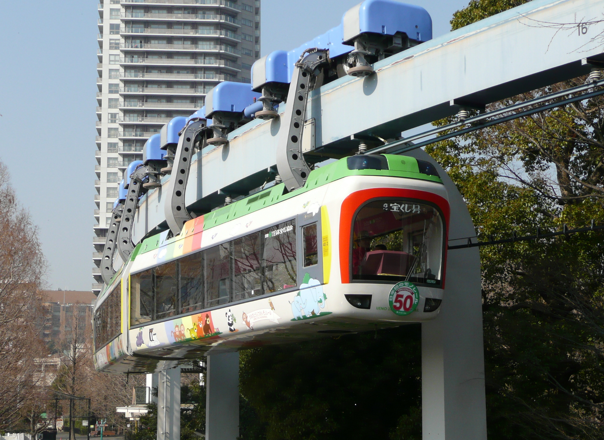 40 type,Ueno Zoo Monorail,Tokyo Metropolitan Bureau of Transportation.